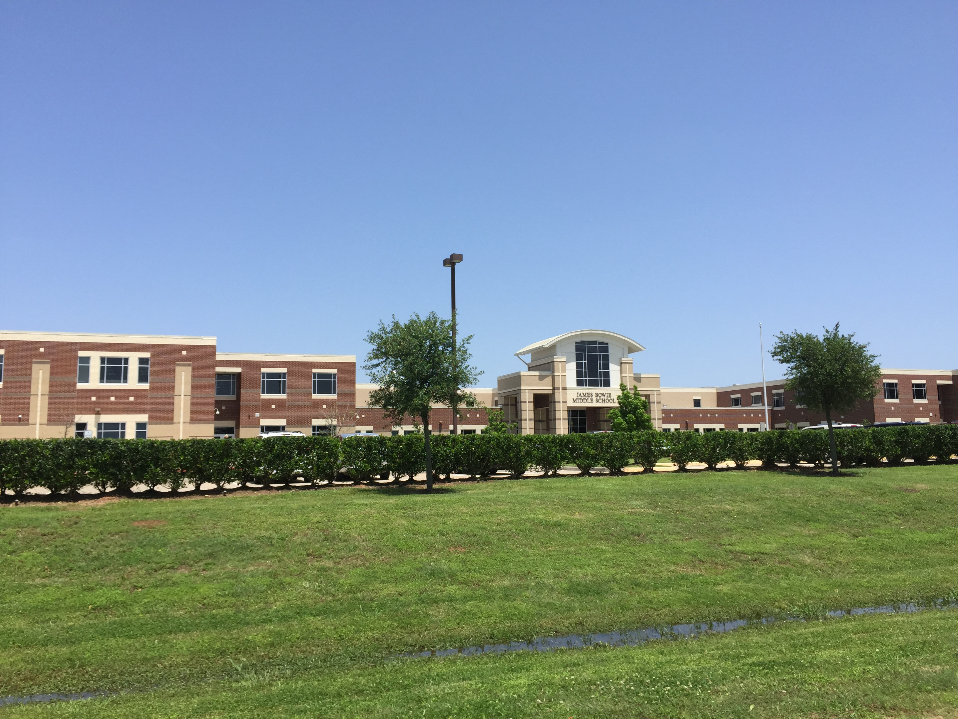 James Bowie Middle School, Fort Bend County, TX